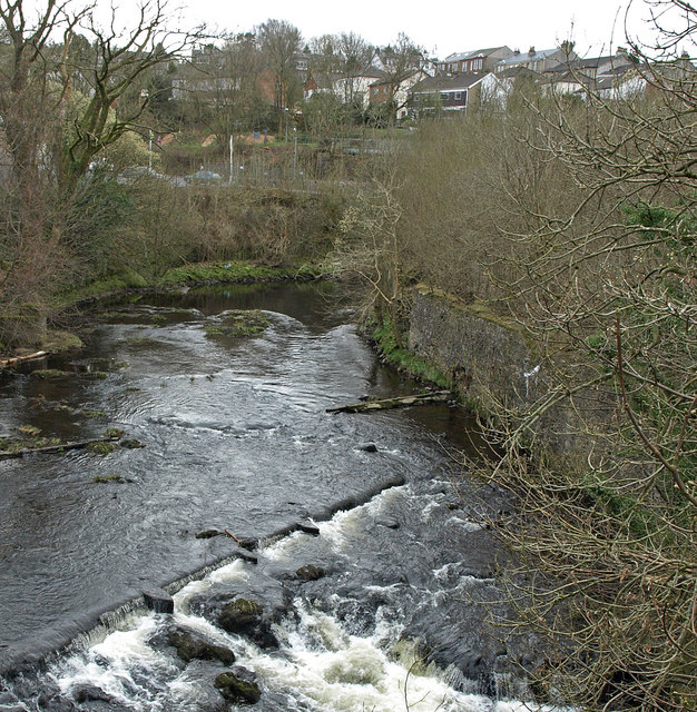 River Gryfe, Bridge of Weir Taken from the A761 road bridge looking at the weir.